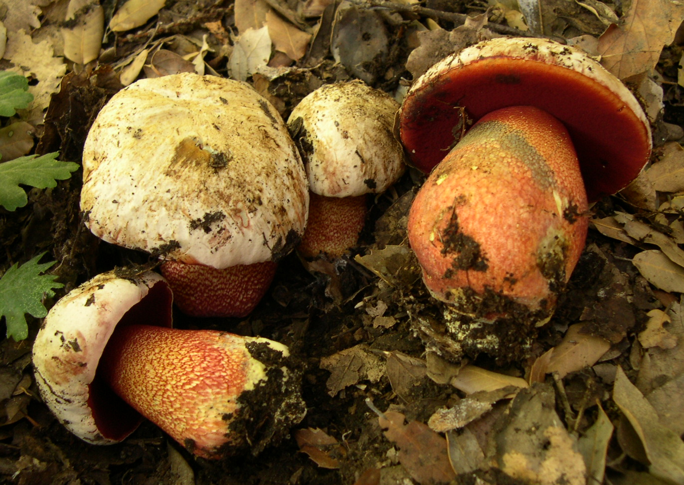 I have taken this photo on the Etna volcano, in a forest of oaks